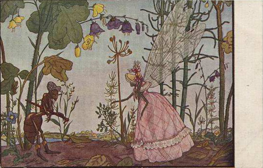 G.I.Narbut. An illustration to I.A.Krylov's fable "the Dragonfly and the Ant"